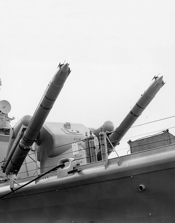 Finless SAM-N-6/RIM-8 Talos missiles on a Mark 12 Guided Missile Launching System (GMLS) aboard the U.S. Navy guided missile cruiser USS Columbus (CG-12), in 1962. This photograph was received by All Hands magazine on 27 November 1962.